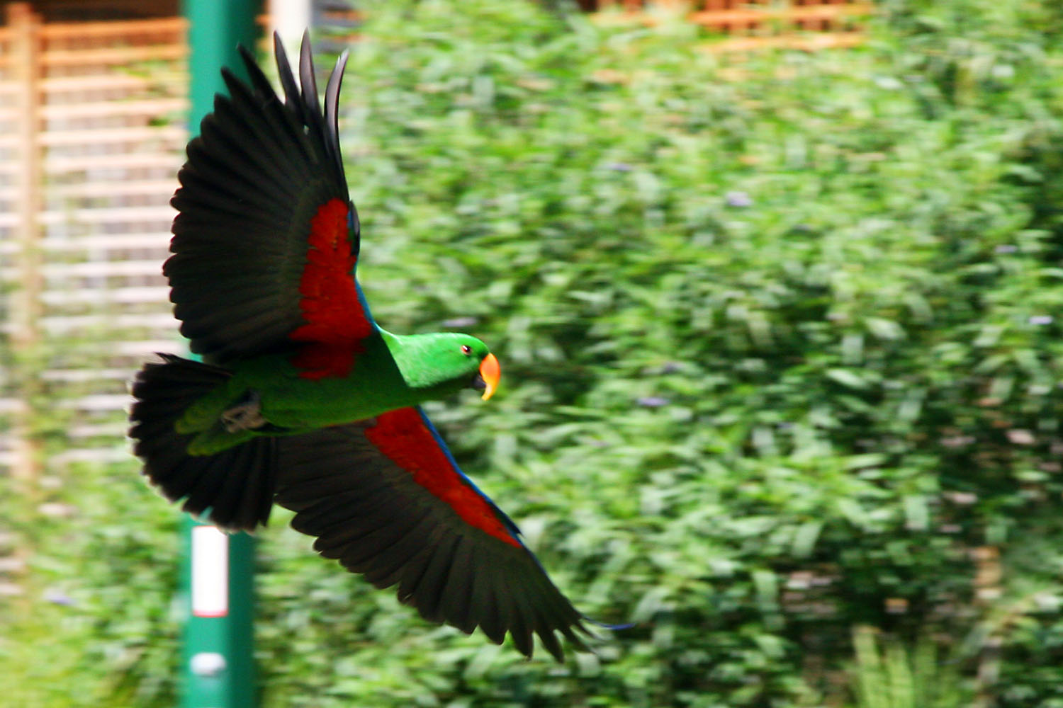 Eclectus Parrot (Eclectus roratus) during the bird show at Healesville Sanctuary, Victoria, Australia.